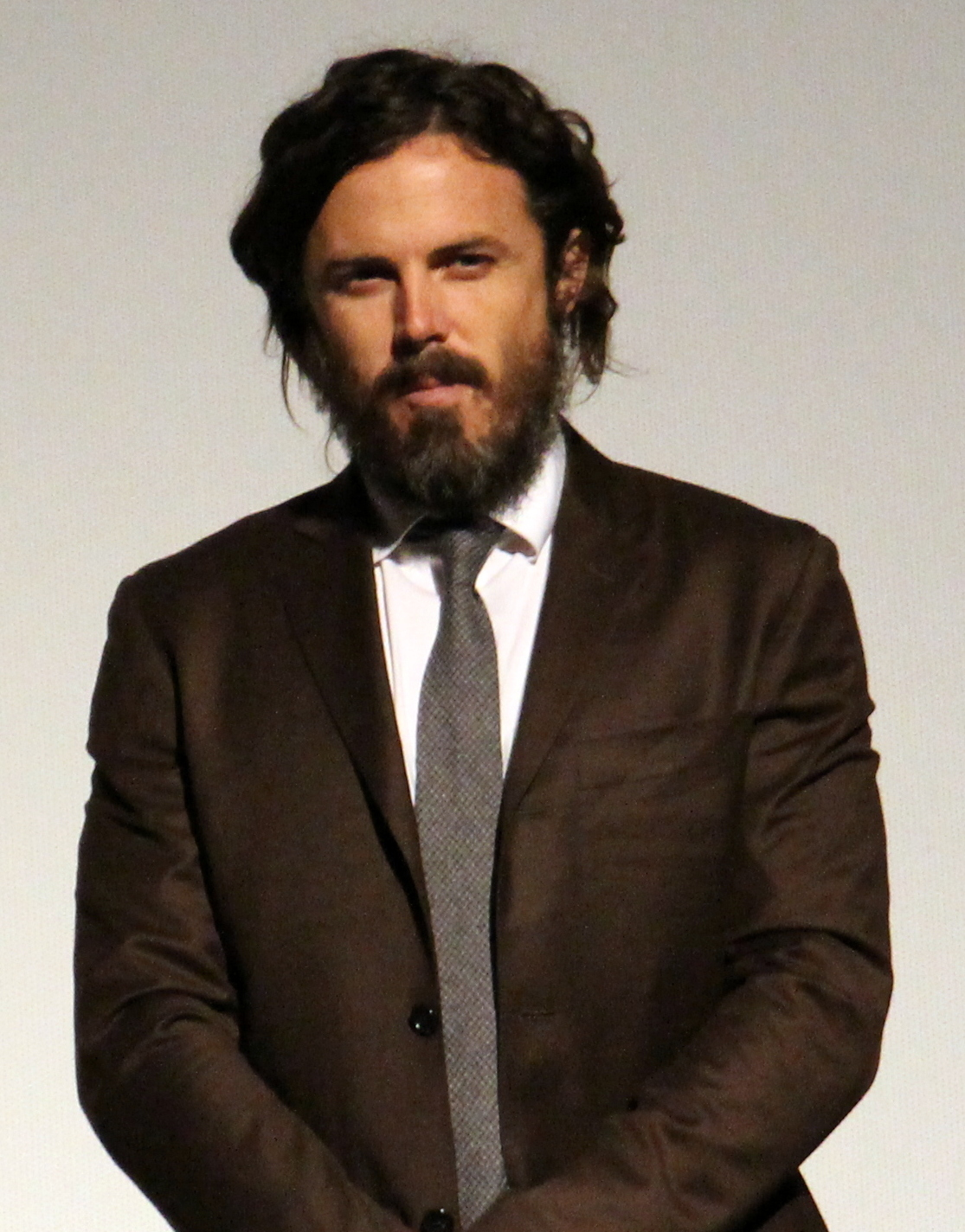 Casey Affleck at the Manchester by the Sea premiere